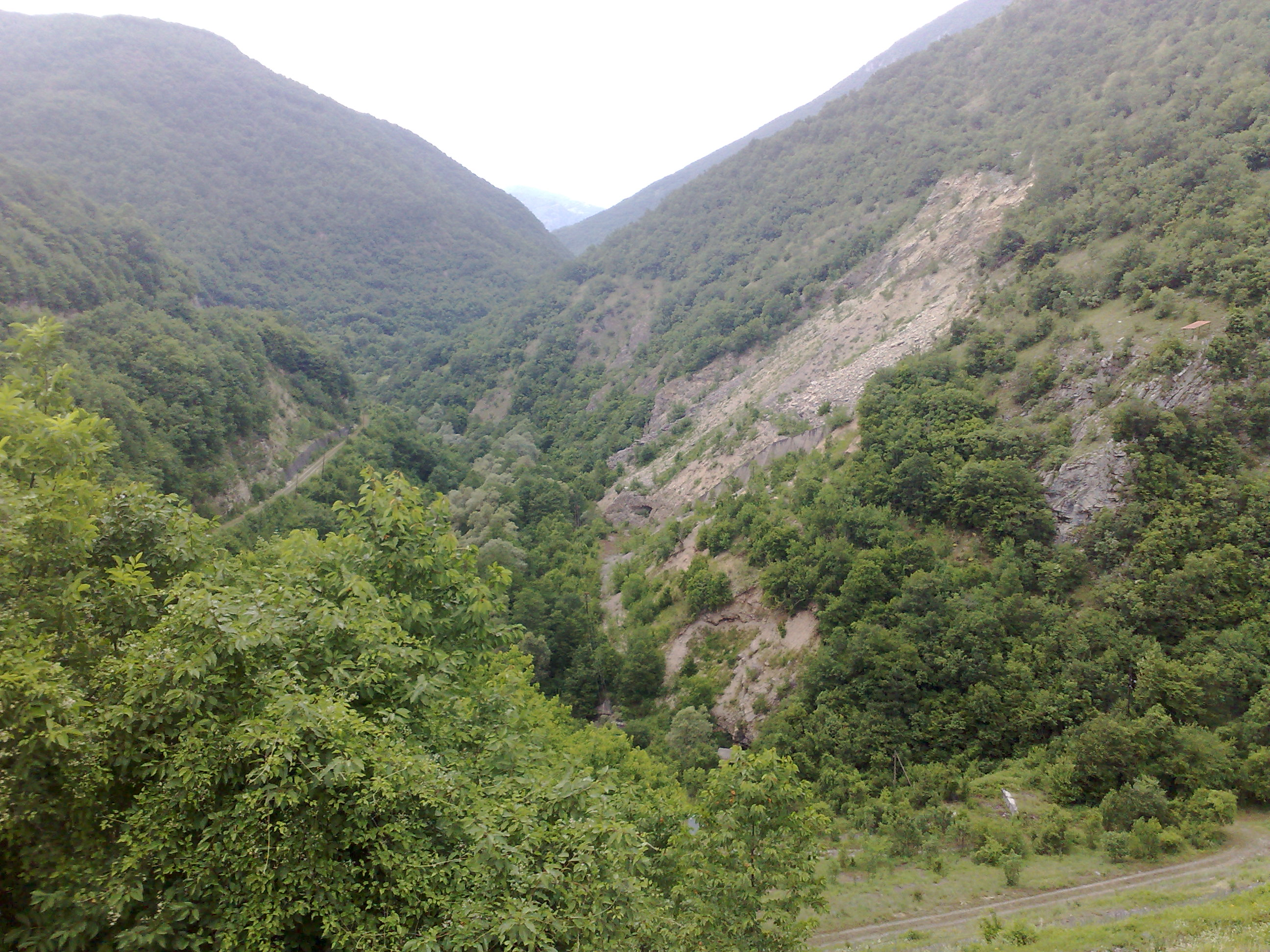 Karaorman Mountain, Macedonia